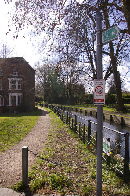 New River Path, Enfield New River Path, with the New River Loop to the right of the path and the signpost for both directions of this pathway can also been seen.